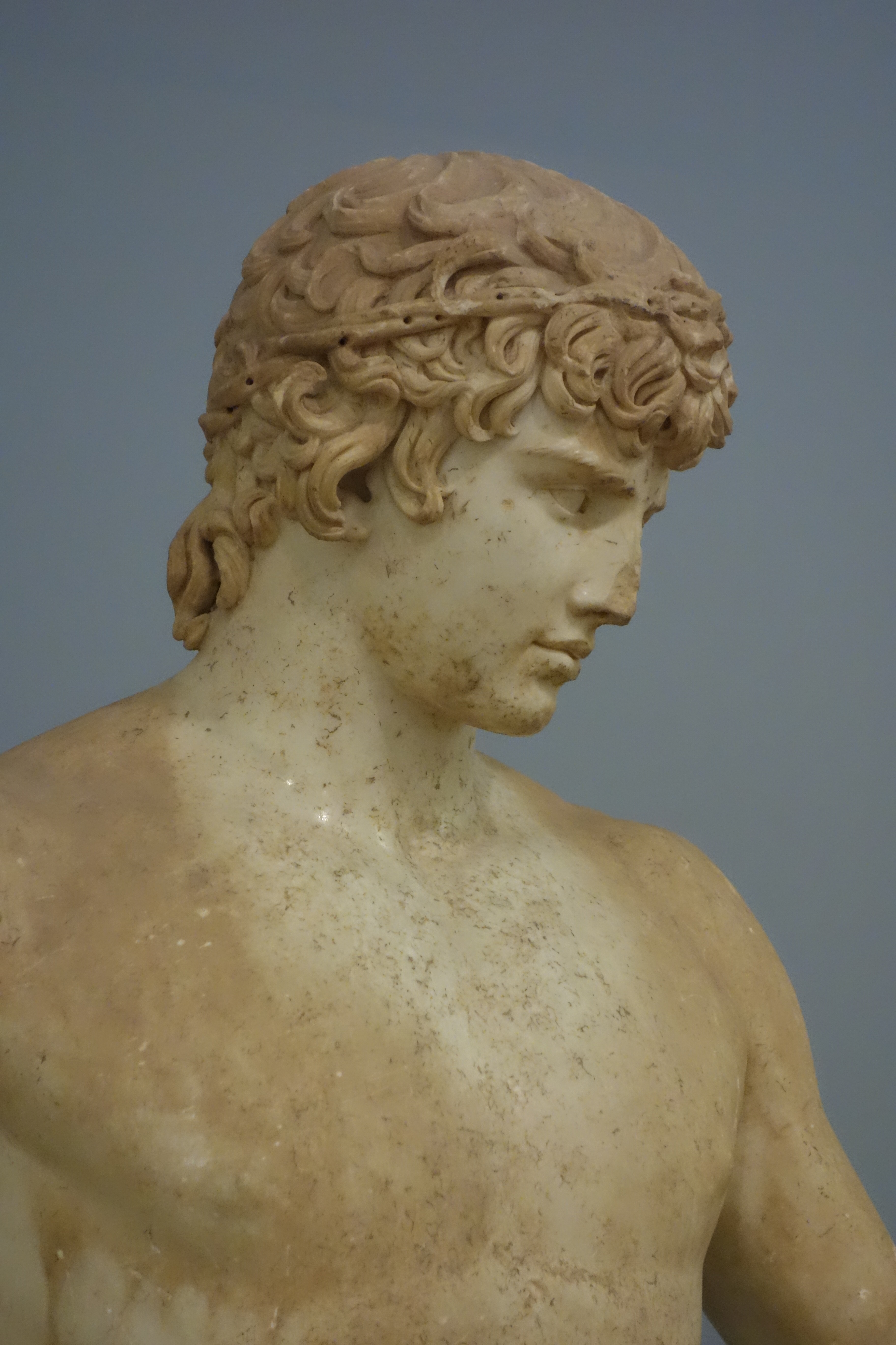 Delphi Antinous